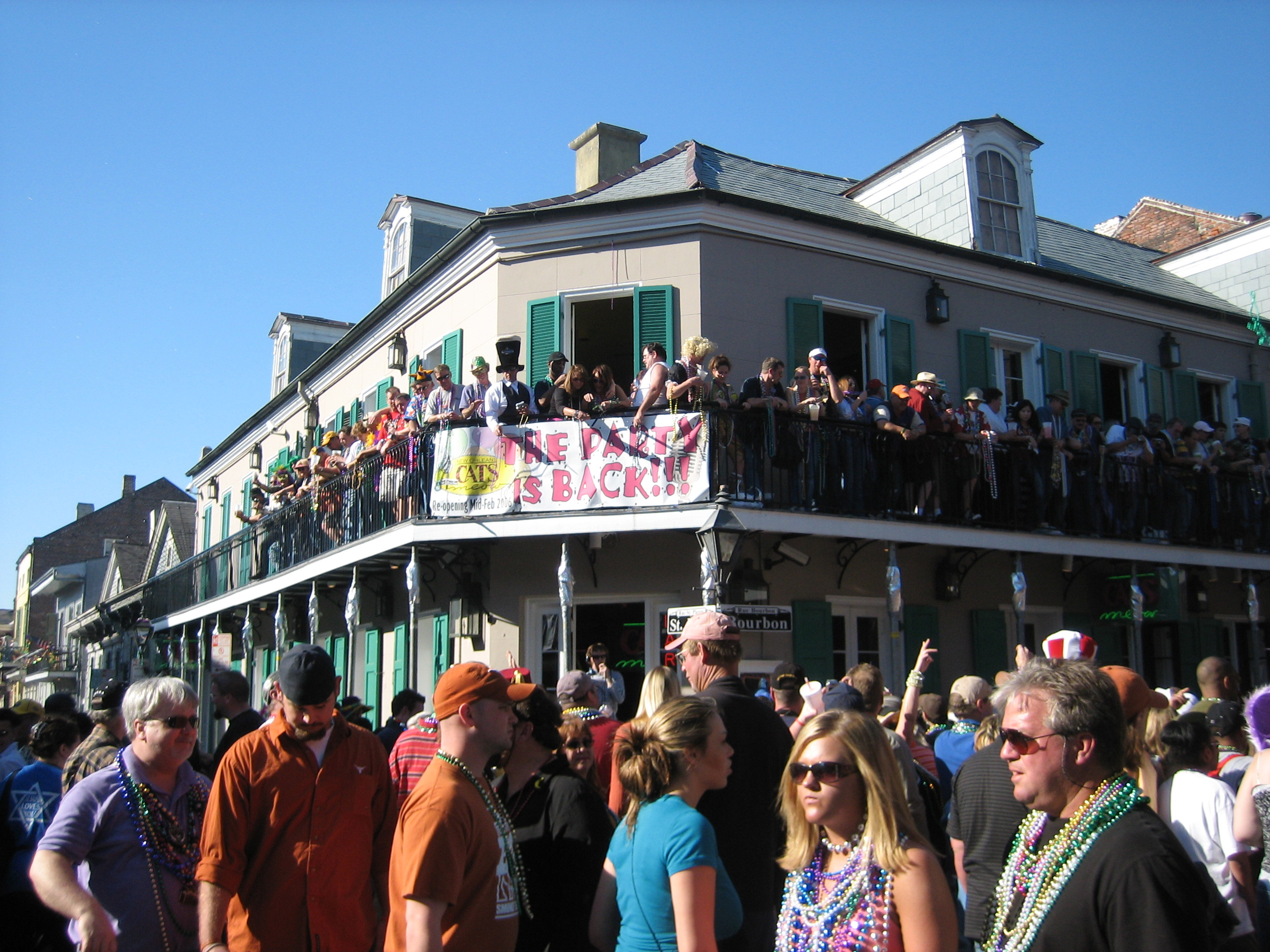 Bourbon Street, French Quarter New Orleans, Mardi Gras Day, 2006. This area is mostly frequented by out of town tourists, hence few costumes and it looks little different than any other busy day.